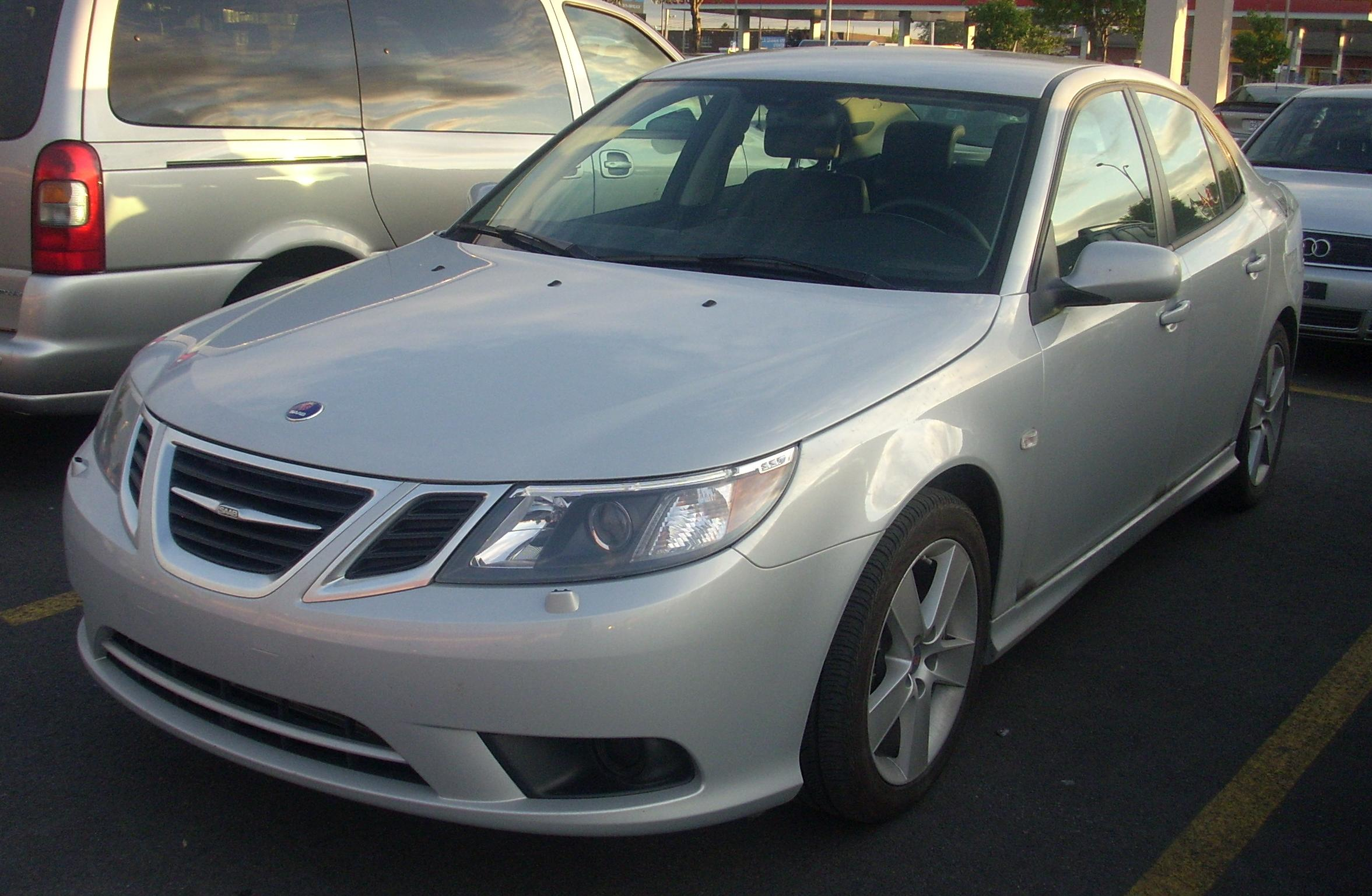 2008-present Saab 9-3 photographed in Montreal, Quebec, Canada.